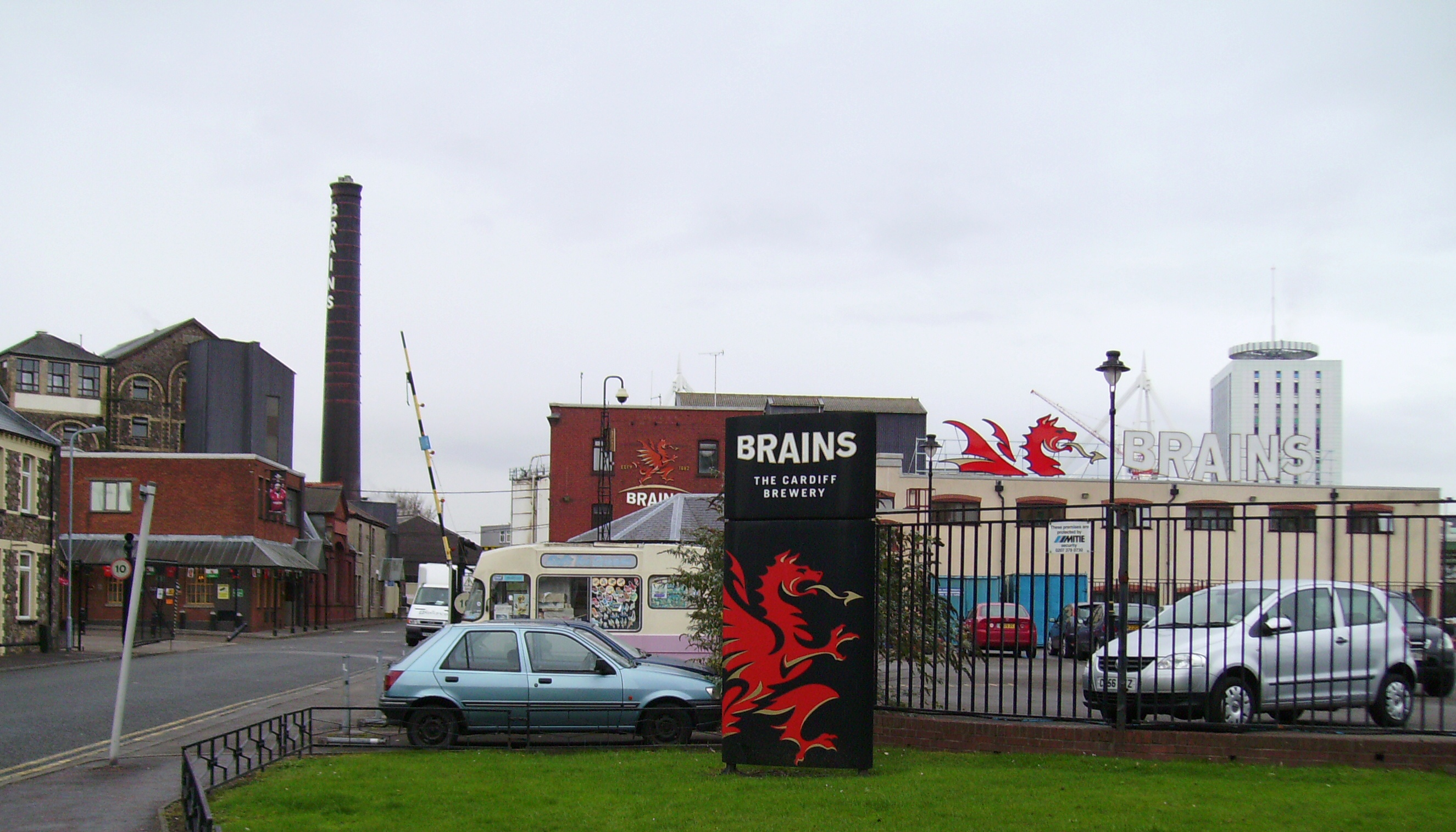 Brains Brewery, Cardiff, Wales